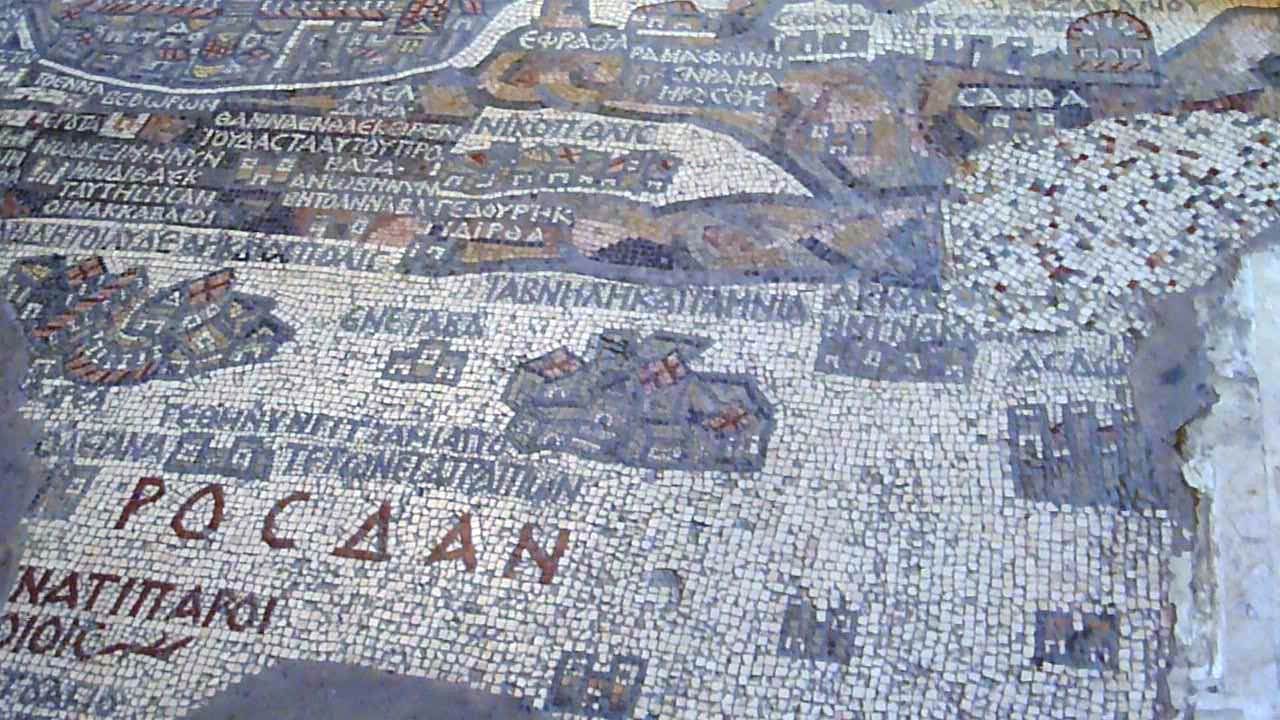 Byzantine floor mosaic map at St. George Church, Madaba, Jordan